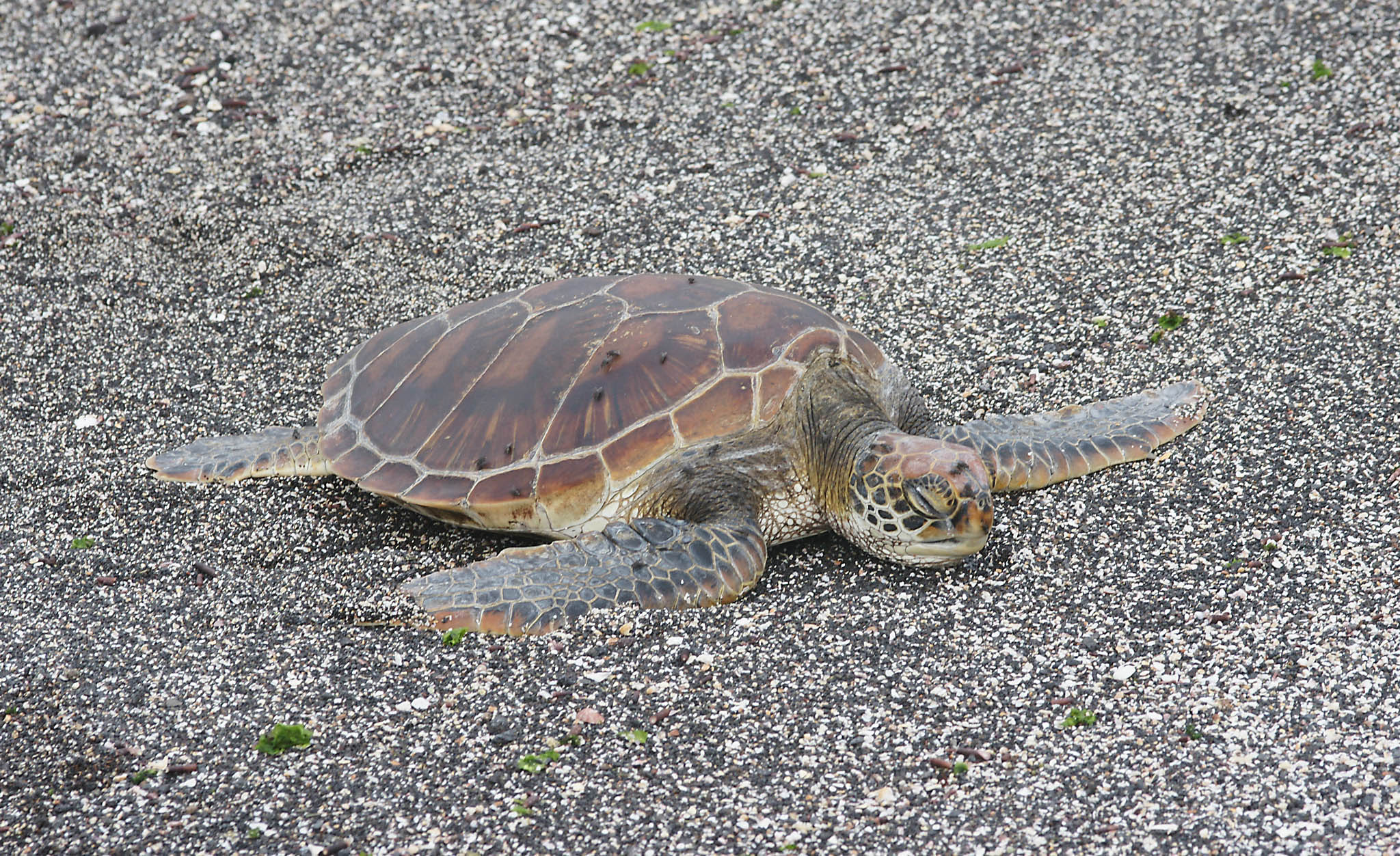 Galápagos Green Turtle, Chelonia mydas agassisi